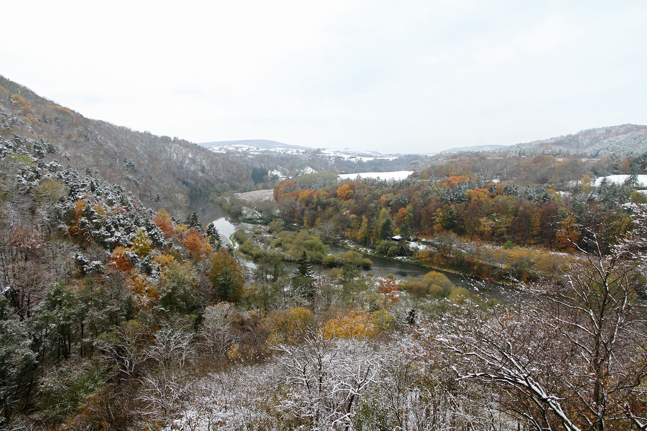 pohled na NPR Týřov 2